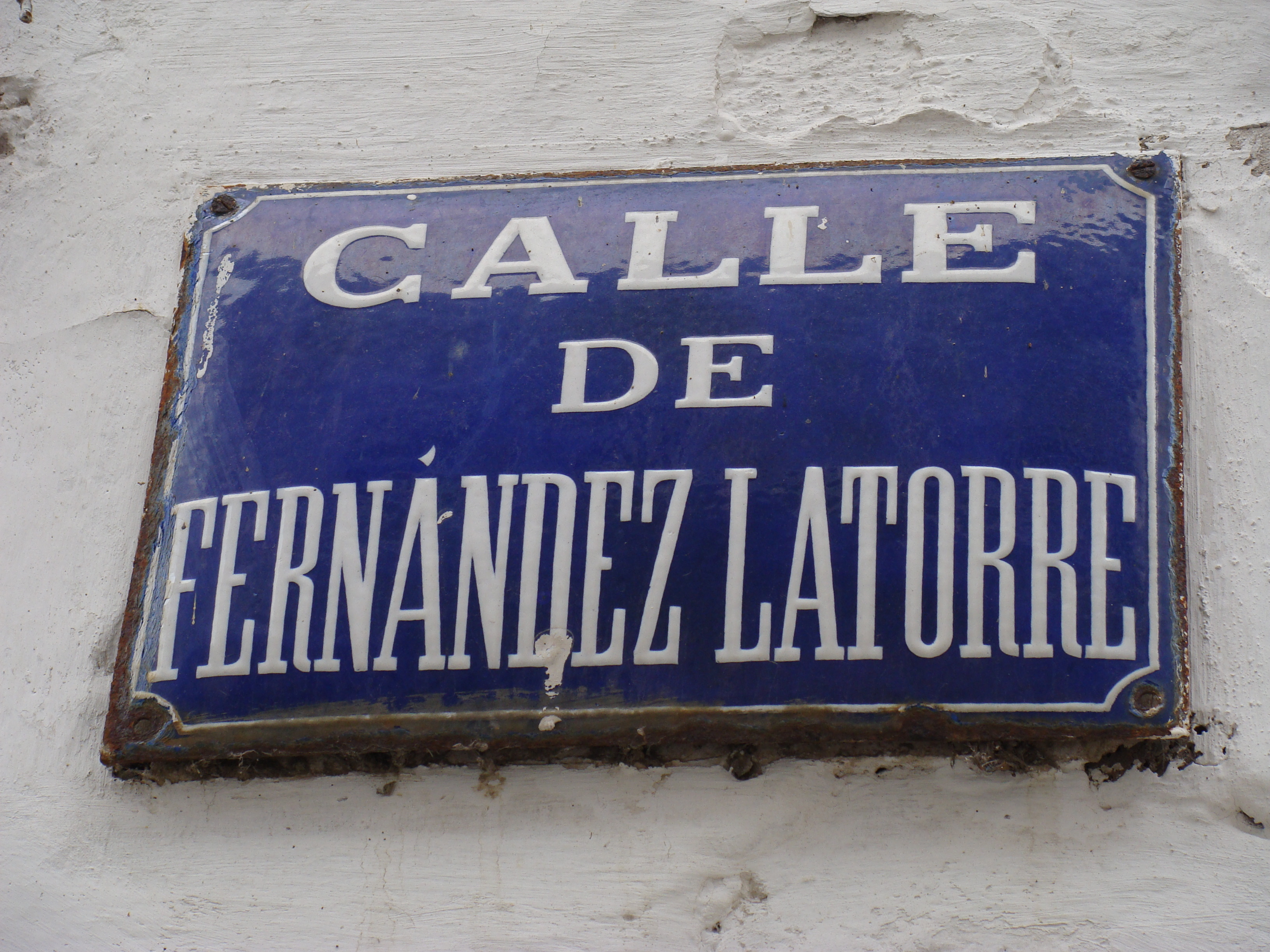 Fernández Latorre street sign in O Barqueiro (Mañón), Corunna, Galicia, Spain.